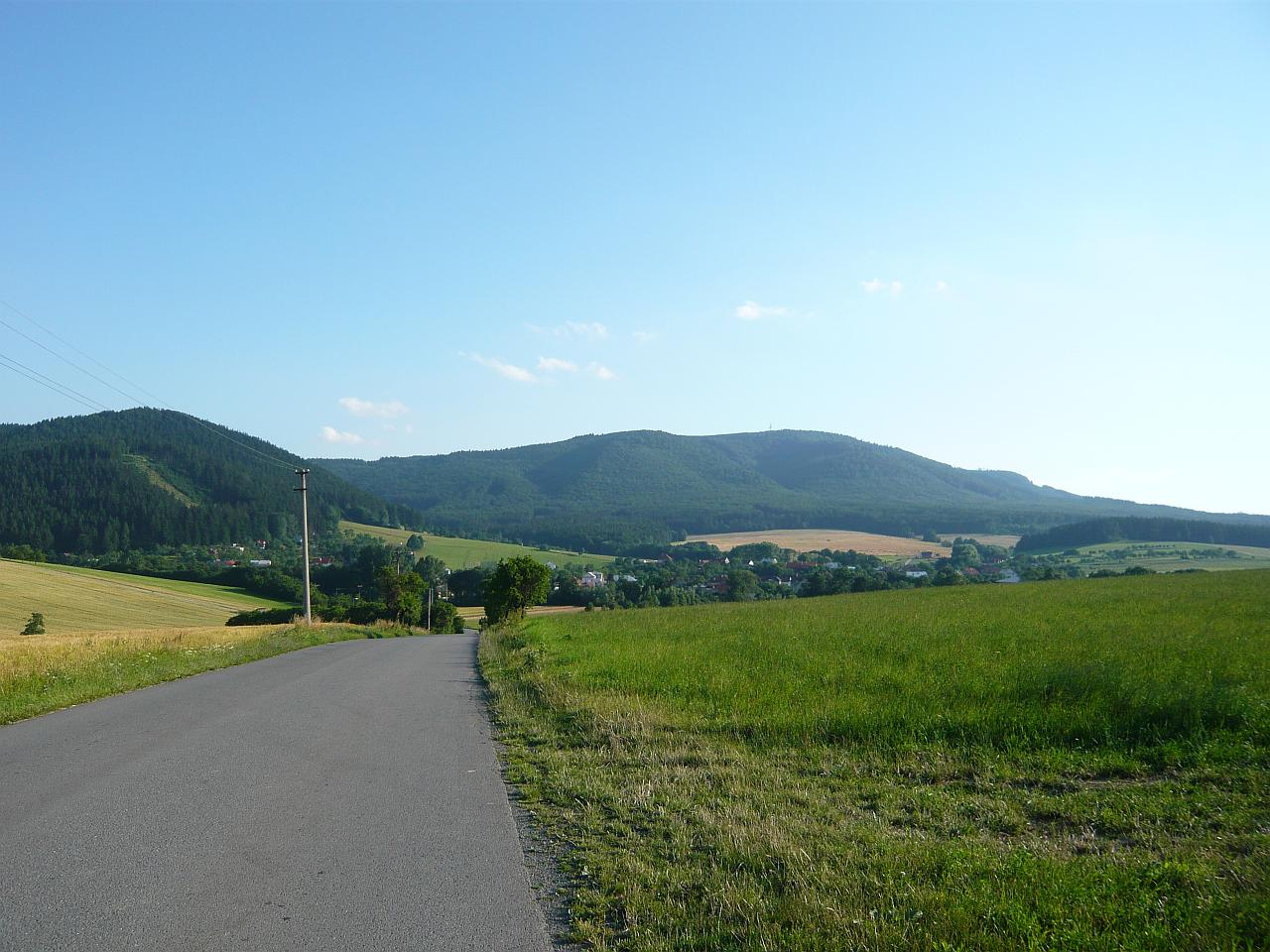 Podhradní Lhota - viewed from the road leading from the train station Rajnochovice , in the background Kelčský Javorník.